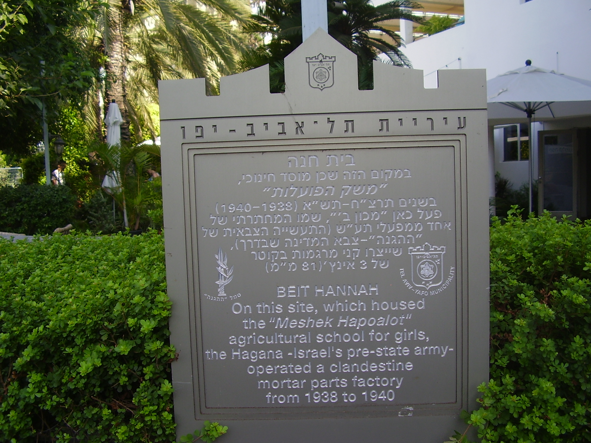 hagana clandestine mortar factory memorial in tel aviv לוחית זיכרון ב"בית חנה" בתל אביב לזכר מפעל נשק של ההגנה שהיה במקום בשנים 1938-1940